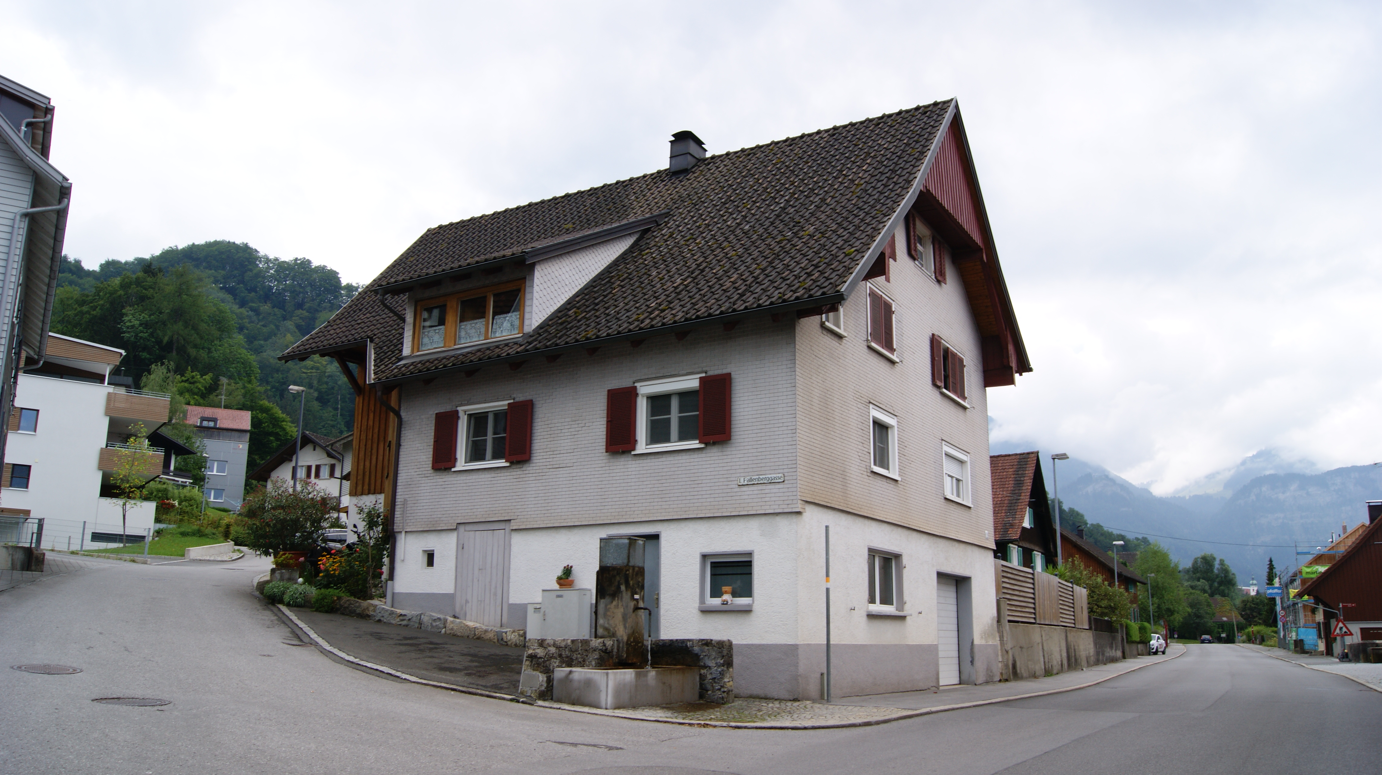 Hill "Unterfallberg" in Dornbirn, Vorarlberg, Austria. Fountain on the corner Fallenberggasse / Kehlerstrasse.